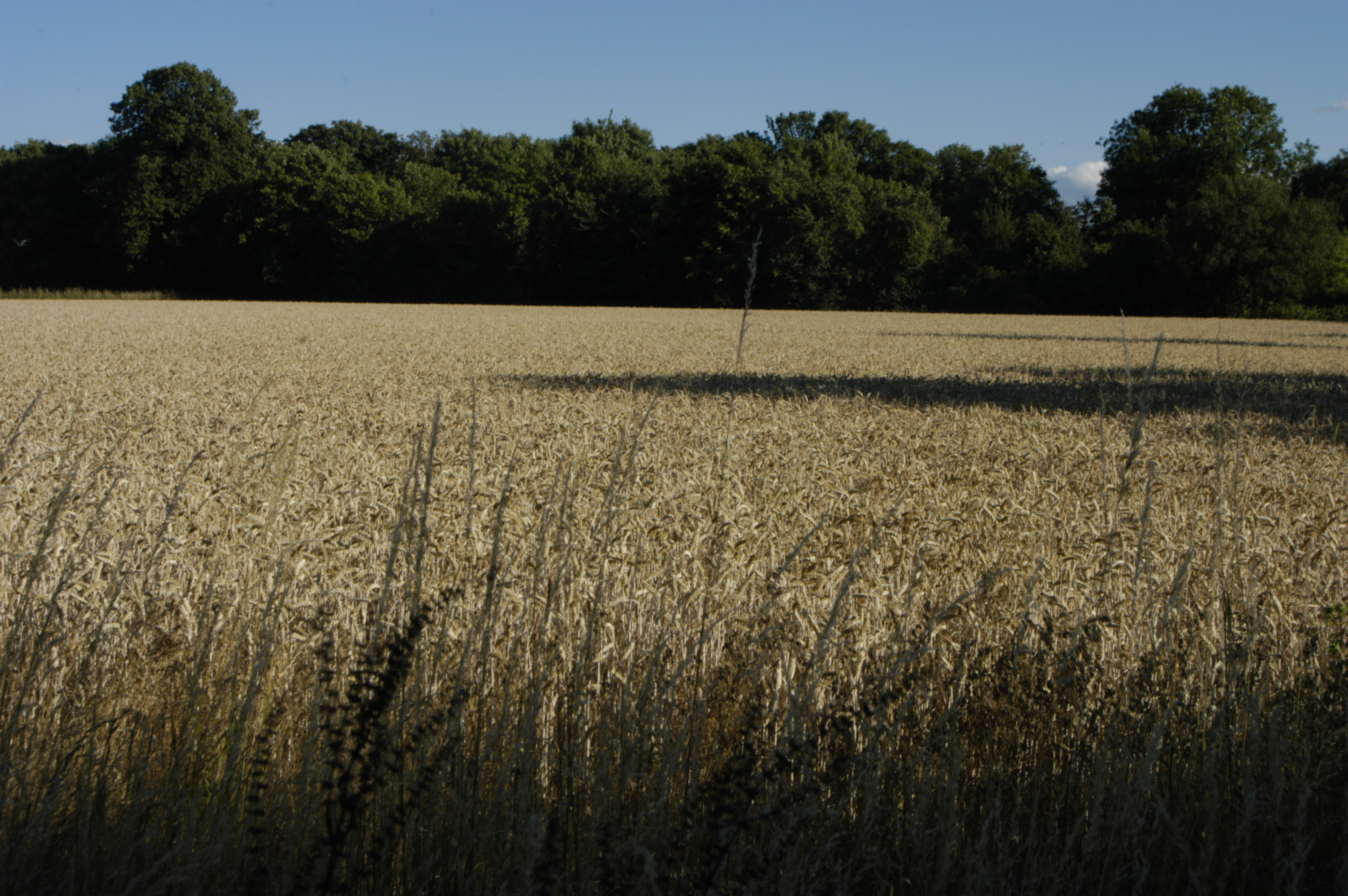 Photo (by me, R. de Salis, Rodolph (talk) 23:57, 27 July 2015 (UTC)) of a wheat field beside the M4, once part of Dawley Manor Farm, at Harlington, Middlesex. July 2015. Sometime held by Jerome de Salis (died 1836) and his heirs, while tenanted by the Newman family, who later owned it. Looking south-east, with the M4 behind.